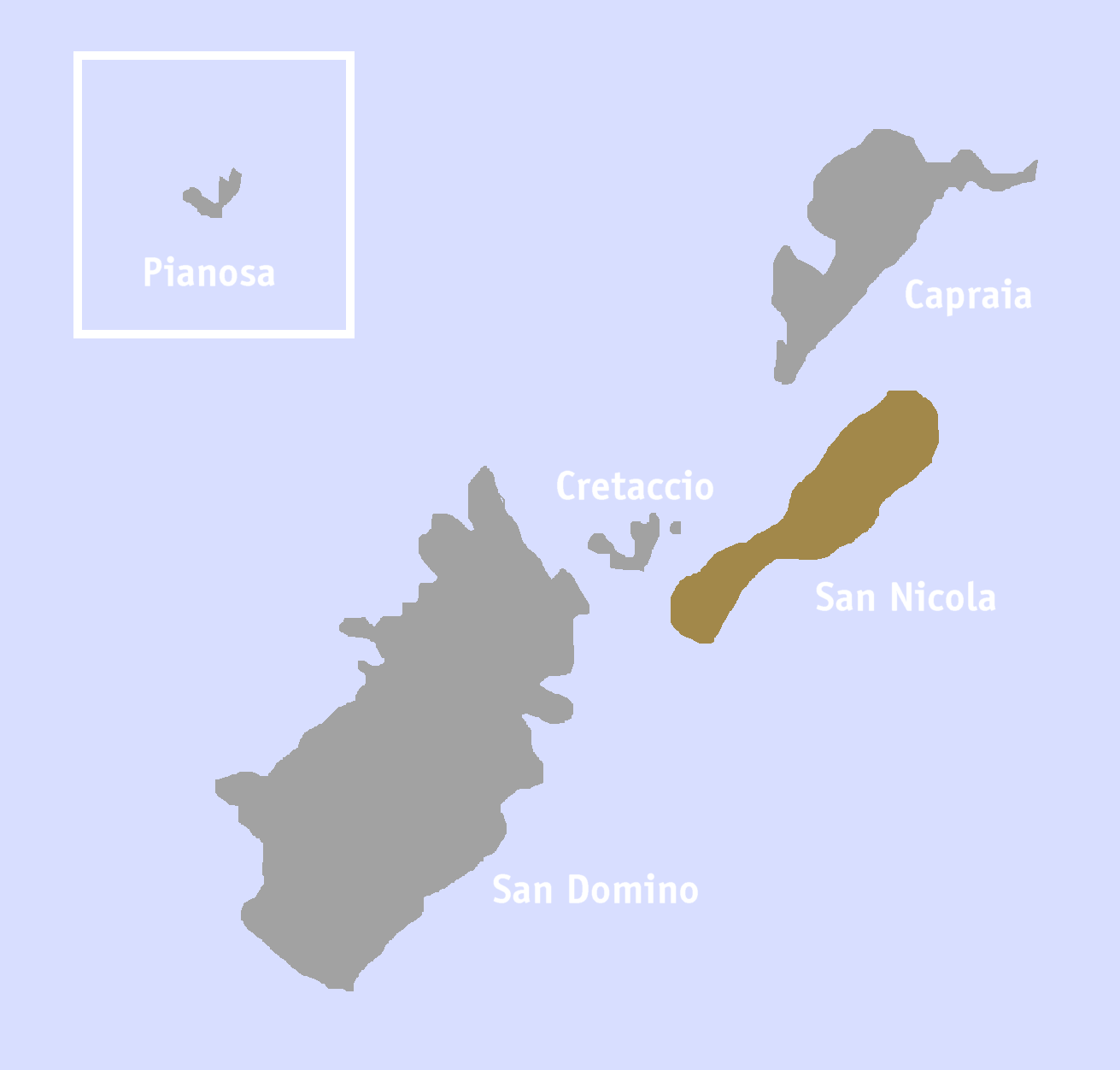 Map of the Isole Tremiti: Position of San Nicola map created by user:Idéfix